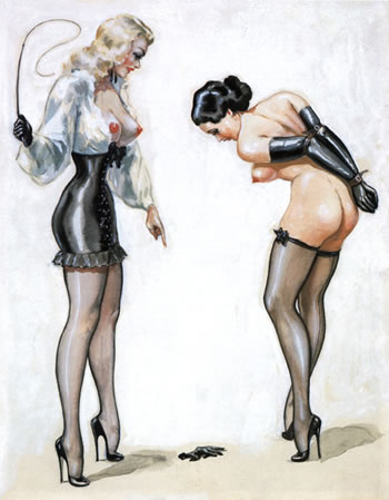 Painting of S/M sexuality